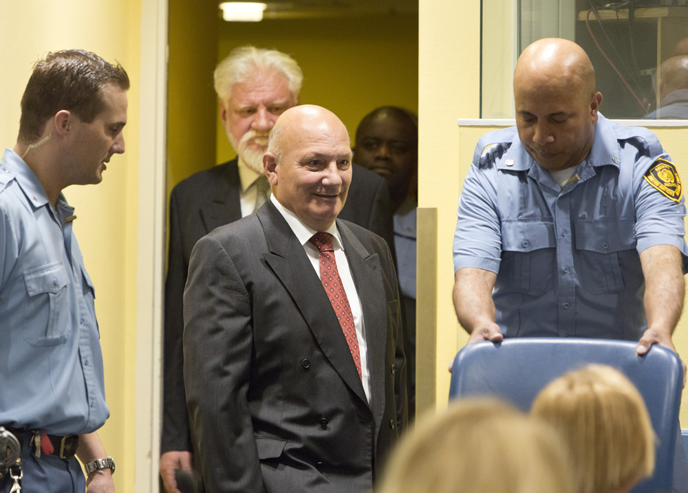 Slobodan Praljak and Milivoj Petković, two of the six accused at the Prlić Trial Judgement in 2013